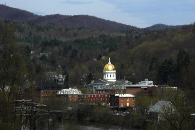 Capitol building dome in Montpelier, Vermont